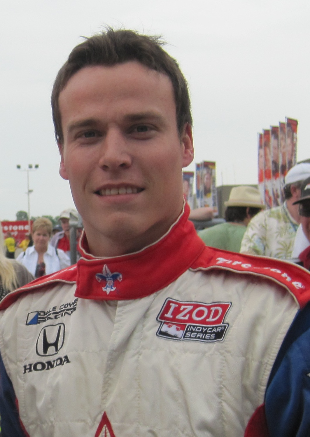 Dale Coyne Racing's Alex Lloyd at the Indianapolis Motor Speedway for day 1 of practice for the 2010 Indianapolis 500 on Saturday, May 15, 2010.